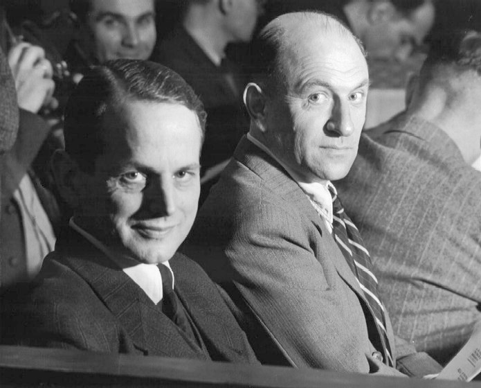 Two principal German defendants of the Einsatzgruppen "commandoes" trial in Nuernberg are SS Major General Otto Ohlendorf and SS Brigadier General Heinz Jost (front to rear) shown in the dock preparing their final pleas during a court recess. "The Einsatzgruppen units," the prosecution stated, "were special task forces whose primary purpose was to accompany the German army into the Eastern territories and exterminate Jews, Gypsies, Soviet officials and other civilians regarded as 'racially and politically undesirable' ". Ohlendorf, as commander of the Einsatzgruppen D, which operated mainly in Southern Russia, and Jost, as commander of Einsatzgruppe A operating mainly in the Baltic region, have admitted ordering the execution of several hundred thousand civilians. They are charged with committing war crimes and crimes against humanity, and membership in the SS and SD, adjudged criminal organizations by the International Military Tribunal. [Original Descriptive Caption]